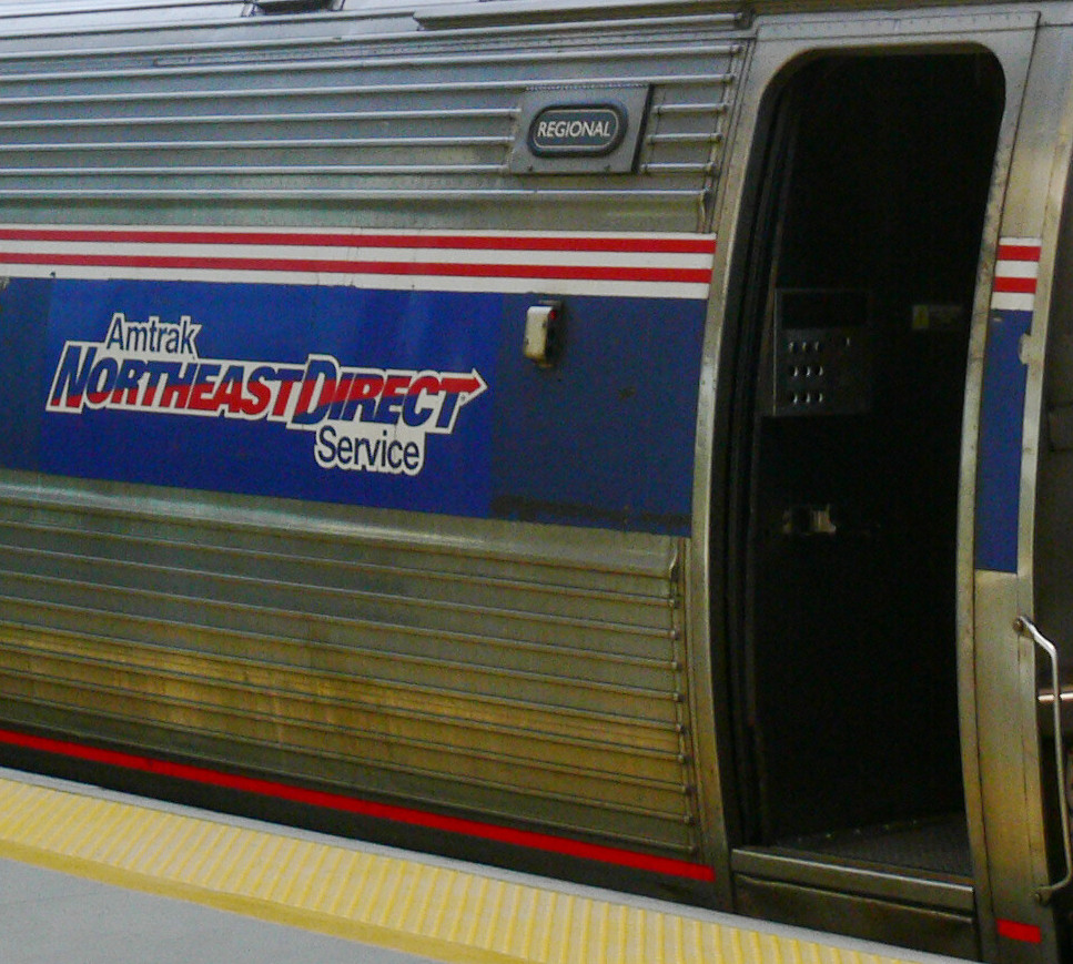 An Amtrak Northeast Regional at Newark Airport station, showing a logo for the former NortheastDirect branding (used 1995-2003) on the side of an Amfleet coach